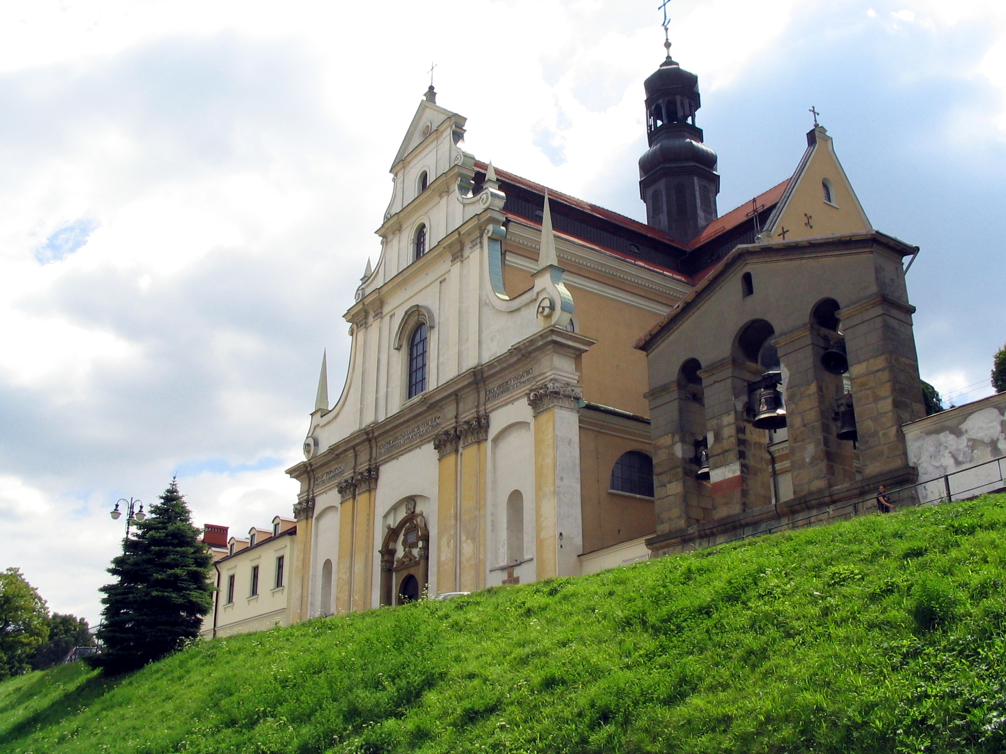 Carmelitan Church in Przemyśl, Poland.